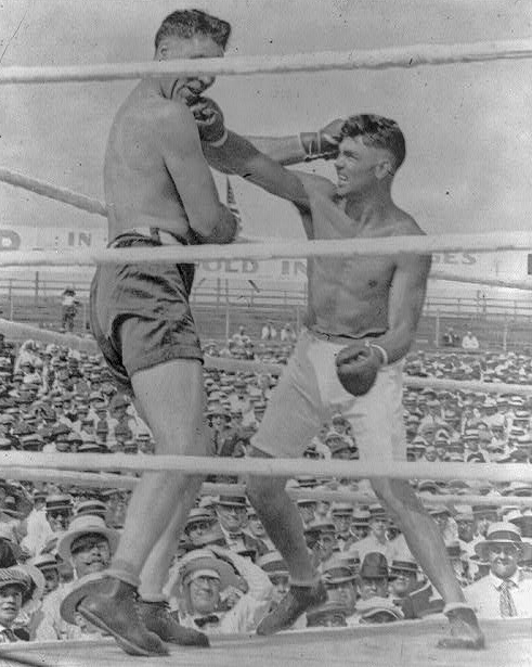 Photograph shows Jack Dempsey landing a right punch to the jaw of Jess Willard; boxing in outside ring in Toledo, Ohio with throngs of spectators in attendance.